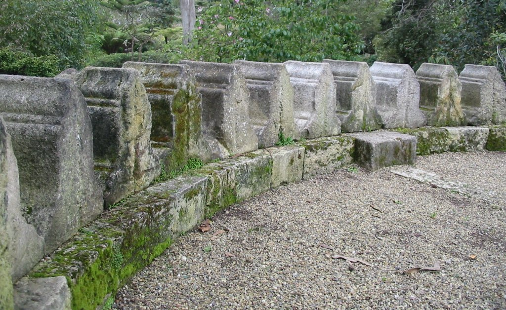 Photograph of stones bordering the Rhododendron pavilion at Golden Gate Park's Strybing Arboretum in San Francisco, California.